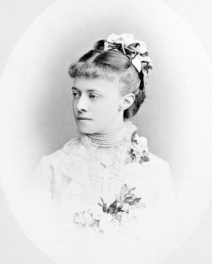 Theresa Petrovna of Oldenburg